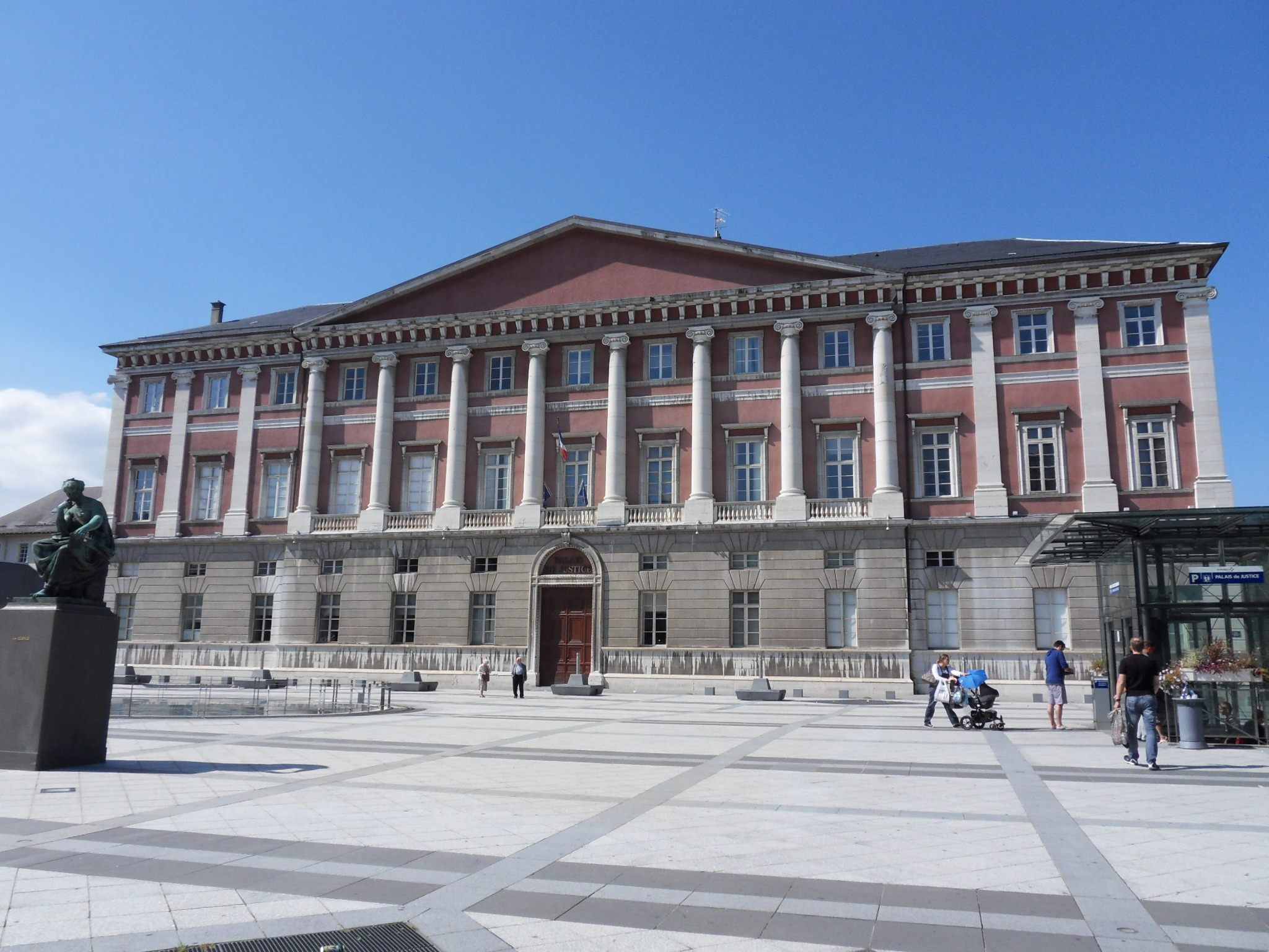 City of Chambéry courthouse (palais de justice) in Savoie, France